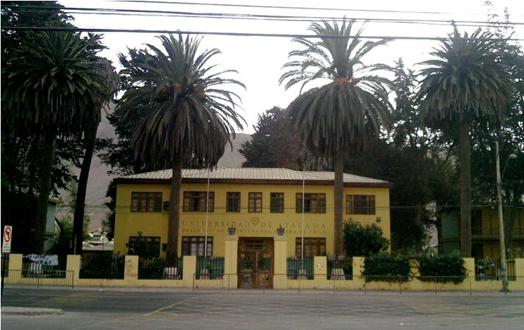 Picture of the Main Bulding (Casa Central) of the University of Atacama.